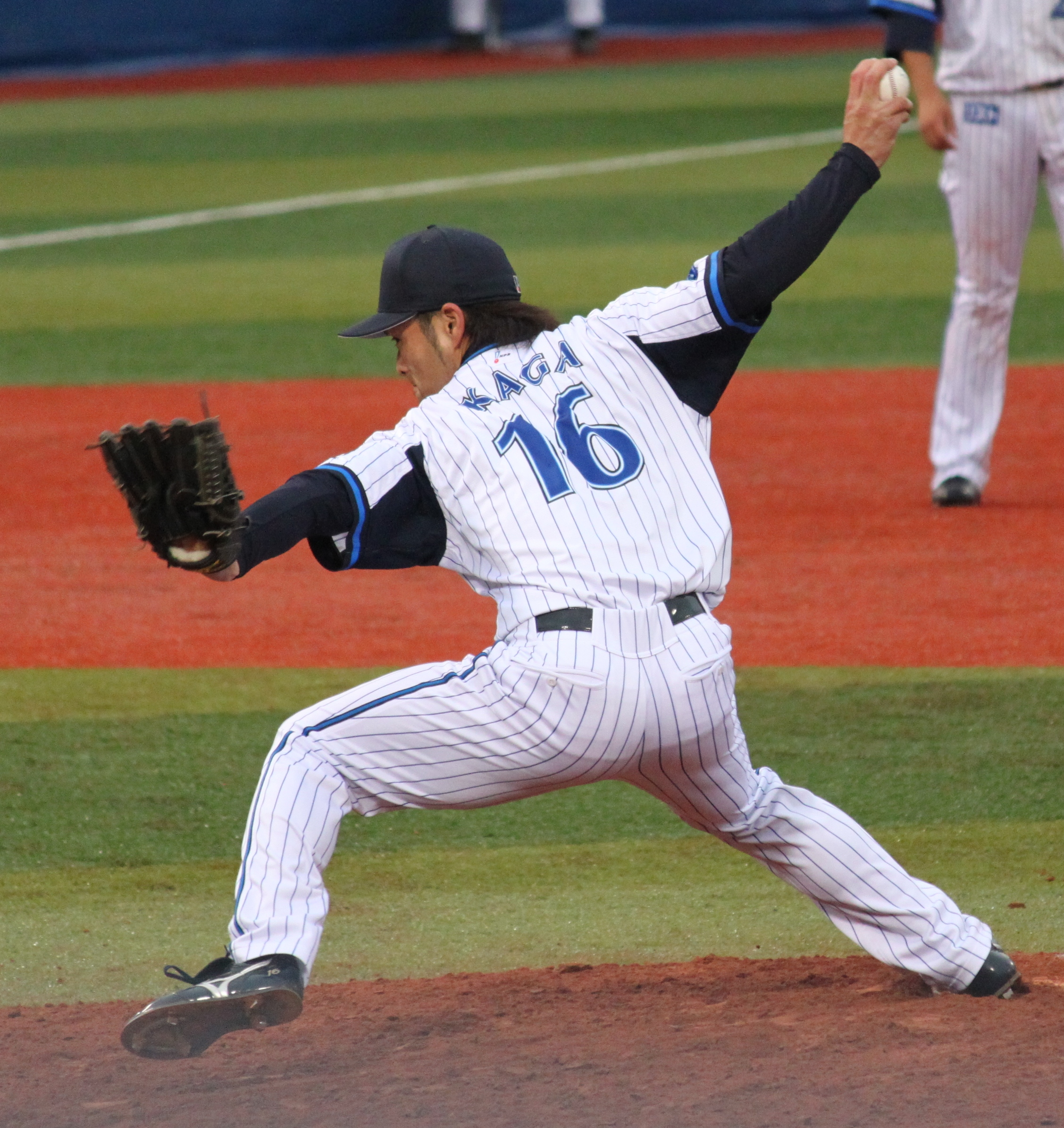 Shigeru Kaga, pitcher of the Yokohama DeNA BayStars, at Yokohama Stadium.